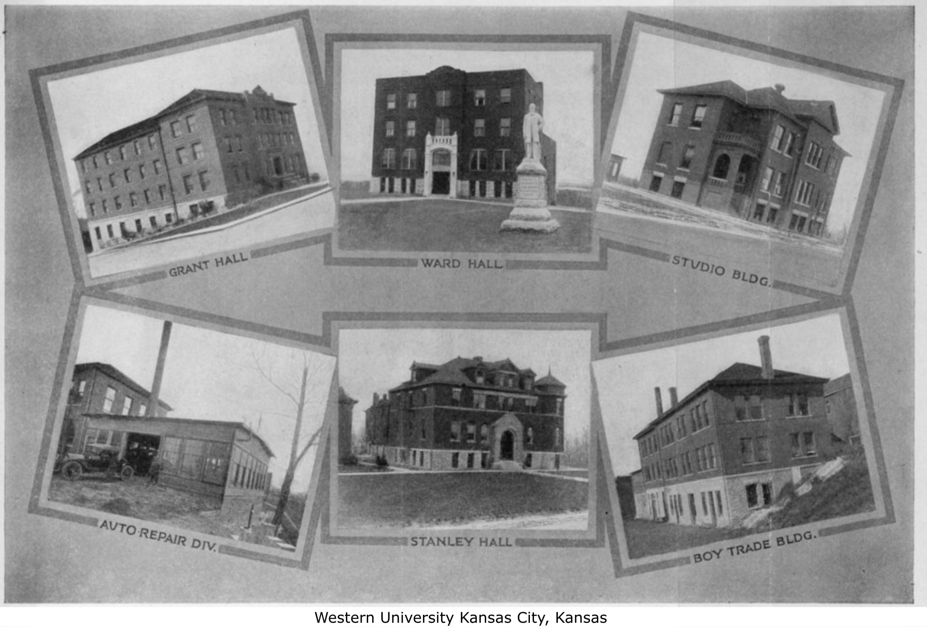 Images of Western University in Kansas City, Kansas, USA